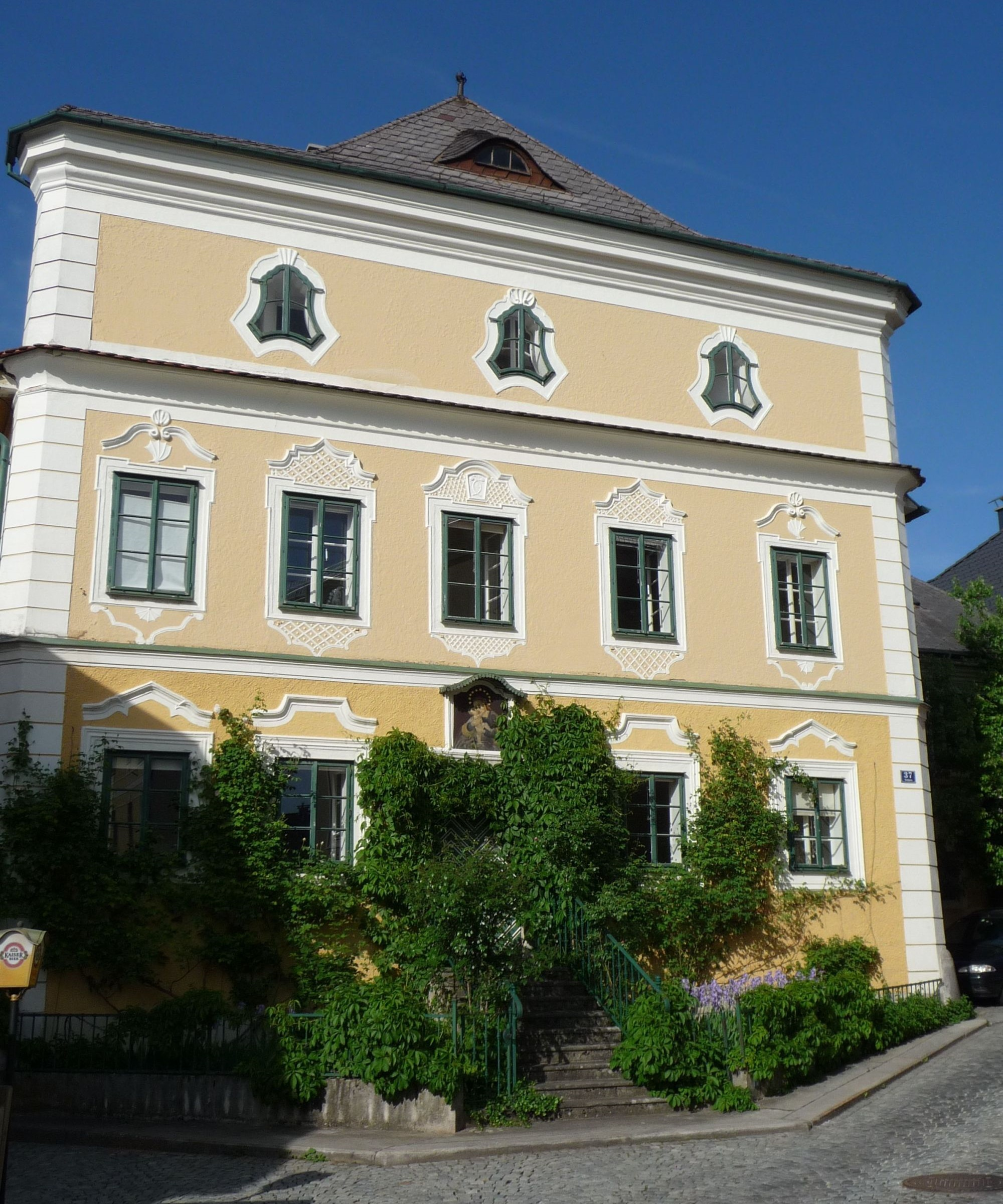 Poeschl House - former factory building